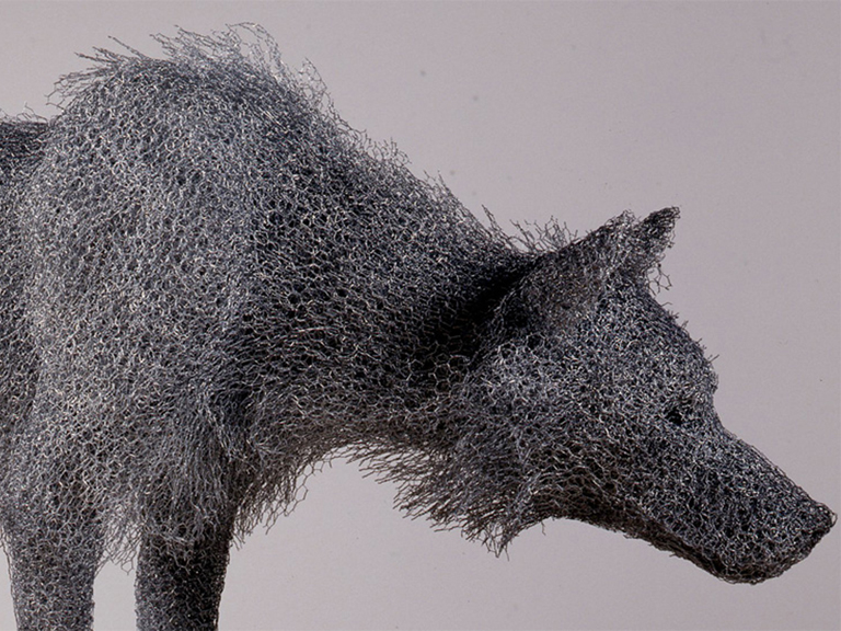 This sculpture is a North American example of the species. The sculpture is in a private collection in the USA.